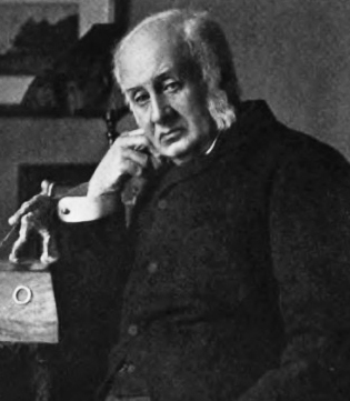 Sir Clements Robert Markham. Sepia-toned bromide print, 1904-1905